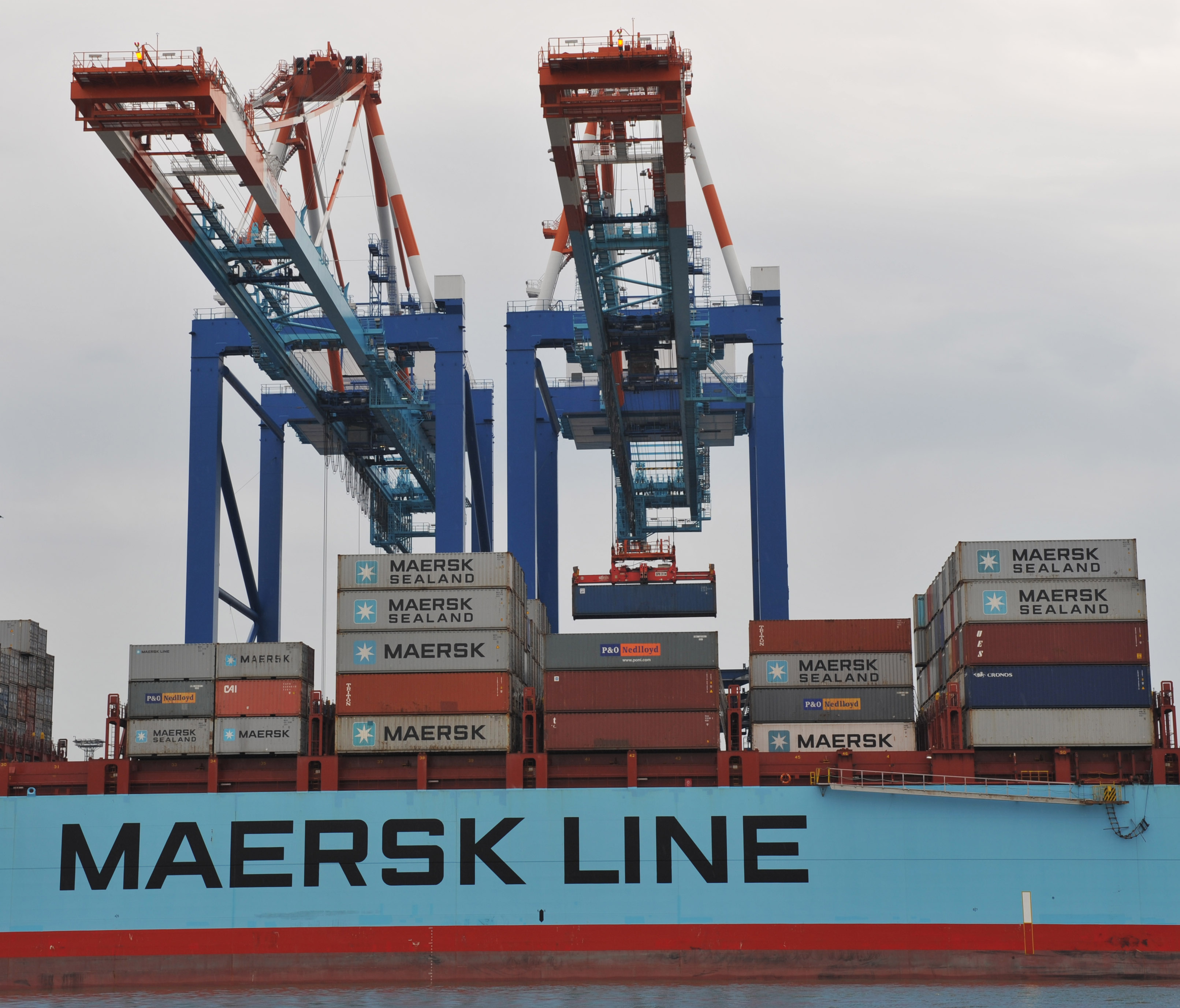 Portainer at container terminal of Bremerhaven